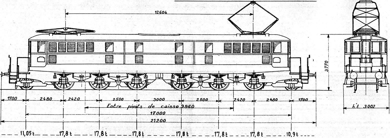 Drawing of locomotive PLM 161 CE 1, 1928